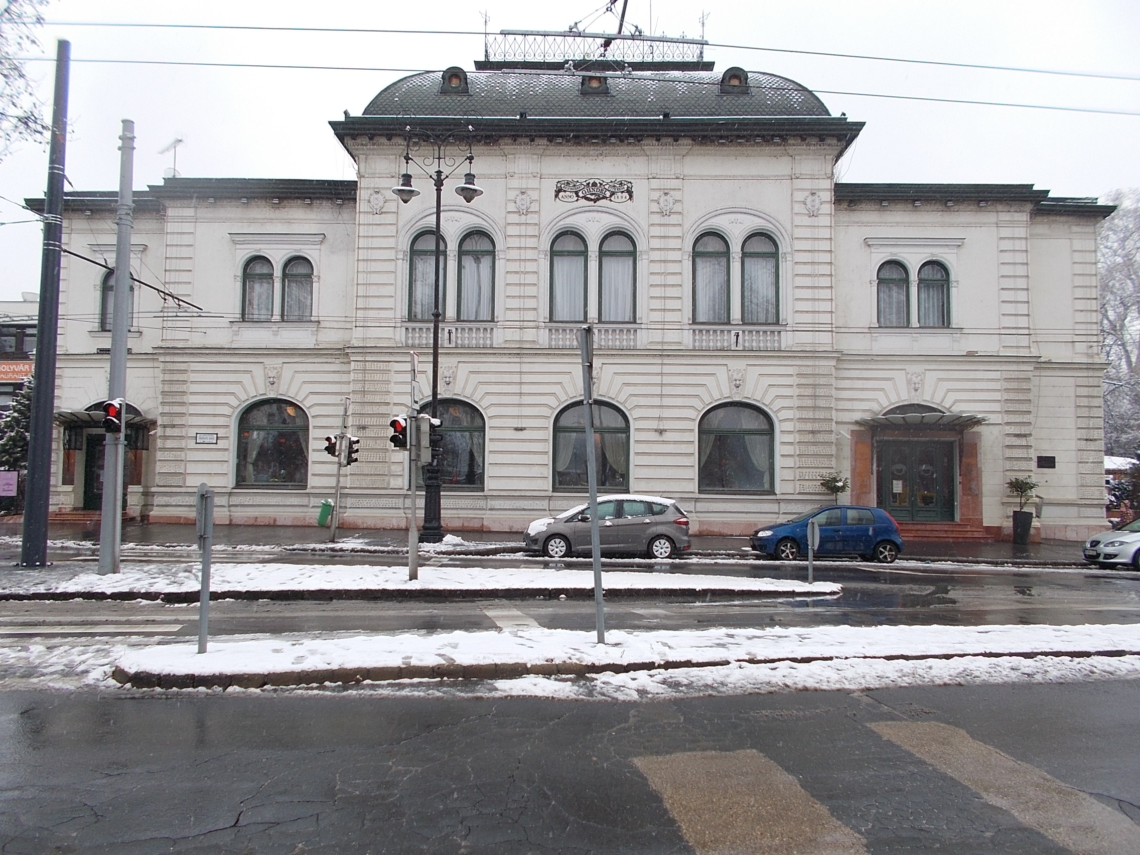 Gundel Restaurant (Est. 1894 ). - 4 Gundel Károly út, City Park neighborhood, Zugló district, Budapest.